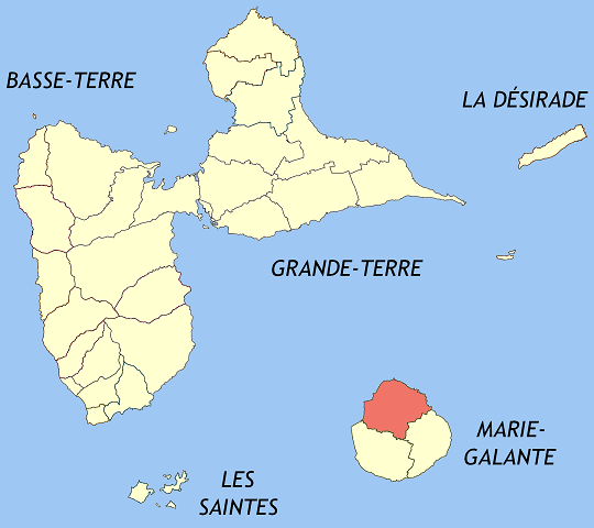 Location of Saint-Louis within Guadeloupe